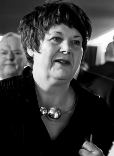 Bente Nyland at Governor Øystein Olsen's annual address in February 2016